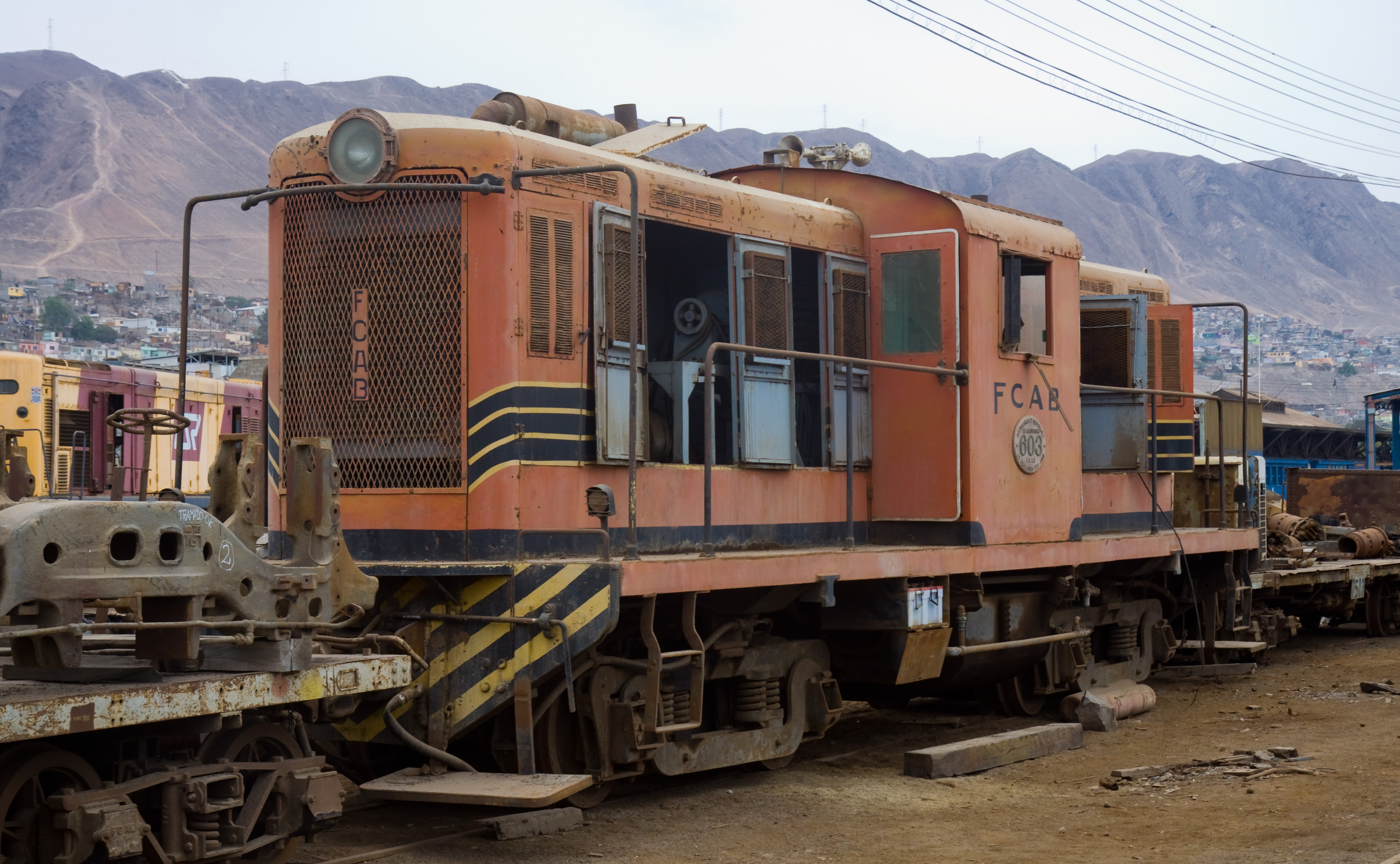 Retired Davenport 44 ton diesel owned by FCAB at Antofagasta